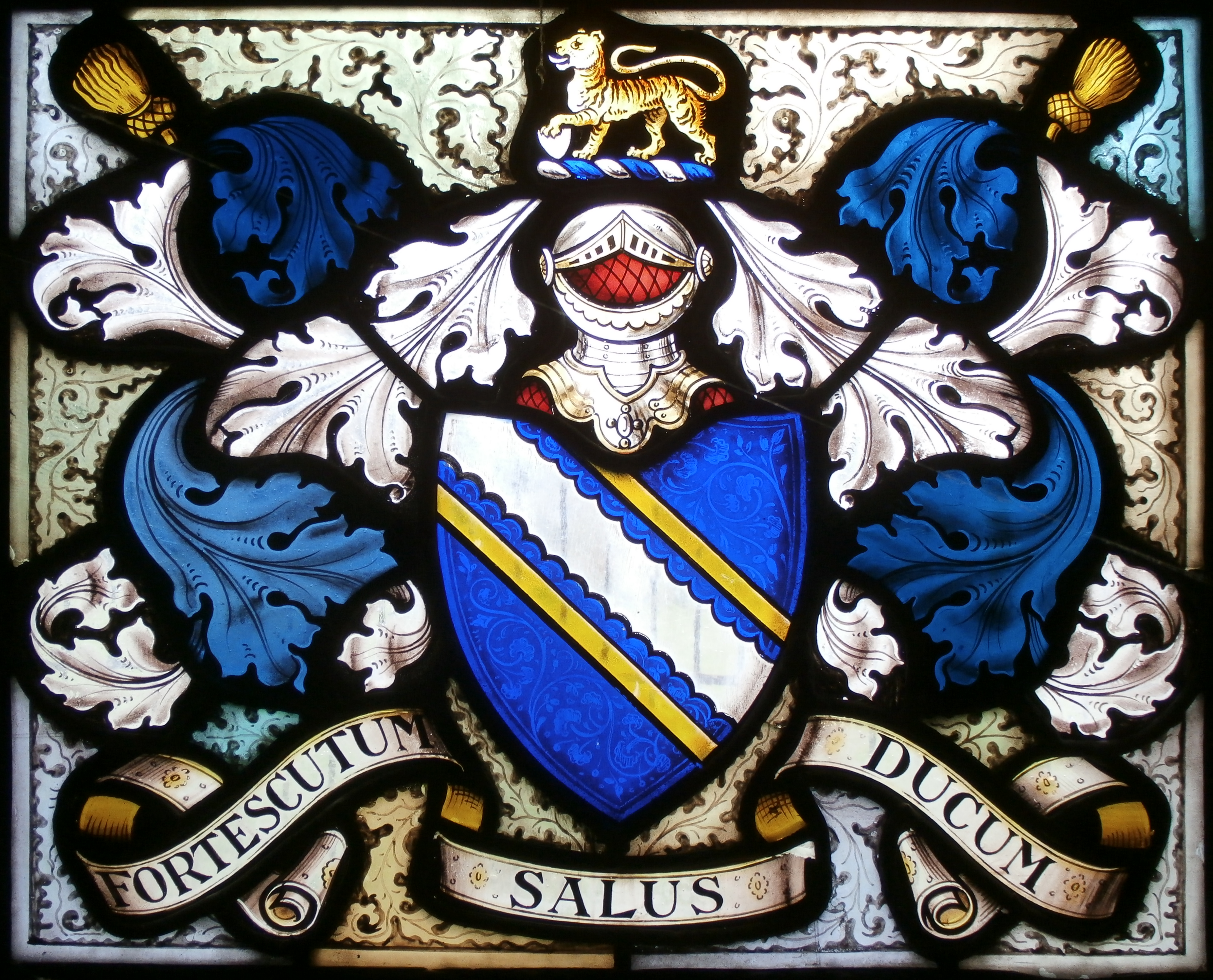 Detail from 1878 stained glass window in Buckland Filleigh Church, Devon, showing heraldic achievement of Sir Faithful Fortescue (1585–1666), a royalist commander during the English Civil War. Window erected in his memory jointly by his lineal descendants Thomas Fortescue, 1st Baron Clermont (1815-1887), an Irish Whig politician and the historian of the Fortescue family, and Chichester Fortescue, 1st Baron Carlingford (1823-1898), as stated in stained glass inscription.